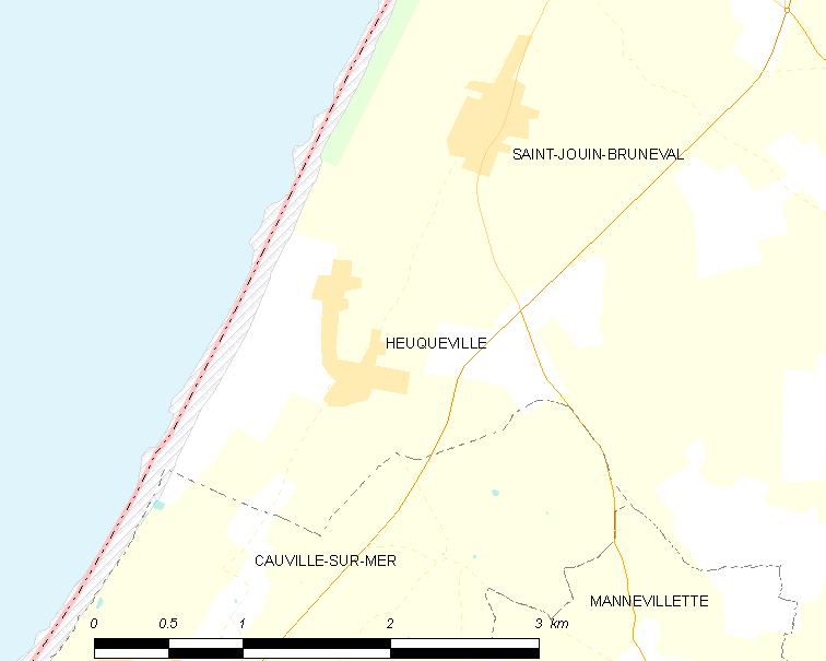 Map of French municipality Heuqueville